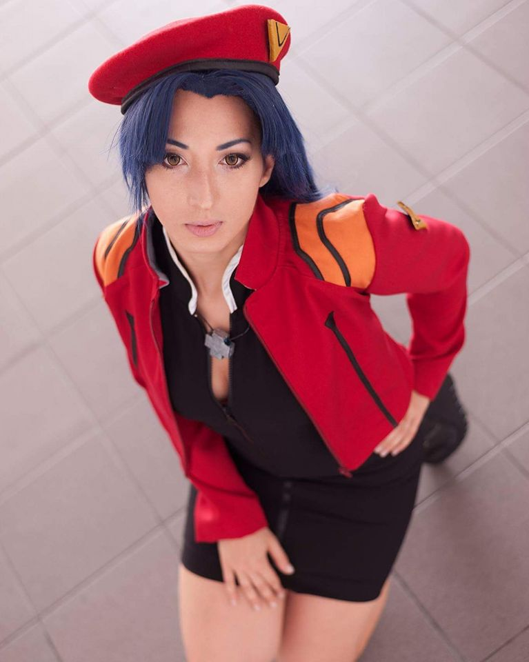 A cosplayer Aleksandra Dacic portraying Misato Katsuragi from Neon Genesis Evangelion. The file was uploaded on Wikimedia Commons with her explicit consense.